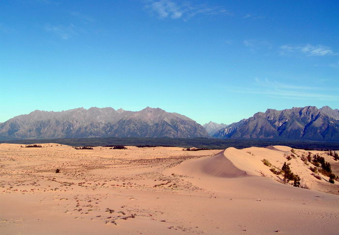 Kodar mountain range from Charskie peski